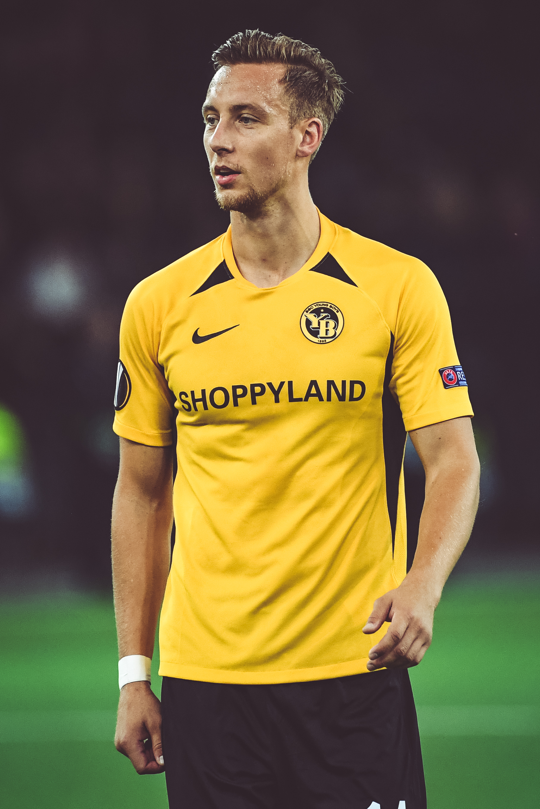 Nicolas Bürgy BSC Young Boys - Feyenoord Rotterdam